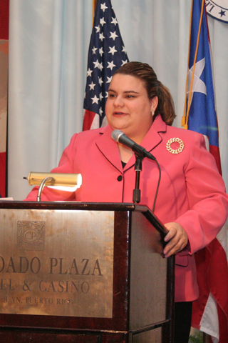 Jenniffer González at the First Hispanic American Veterans Summit in 2006.